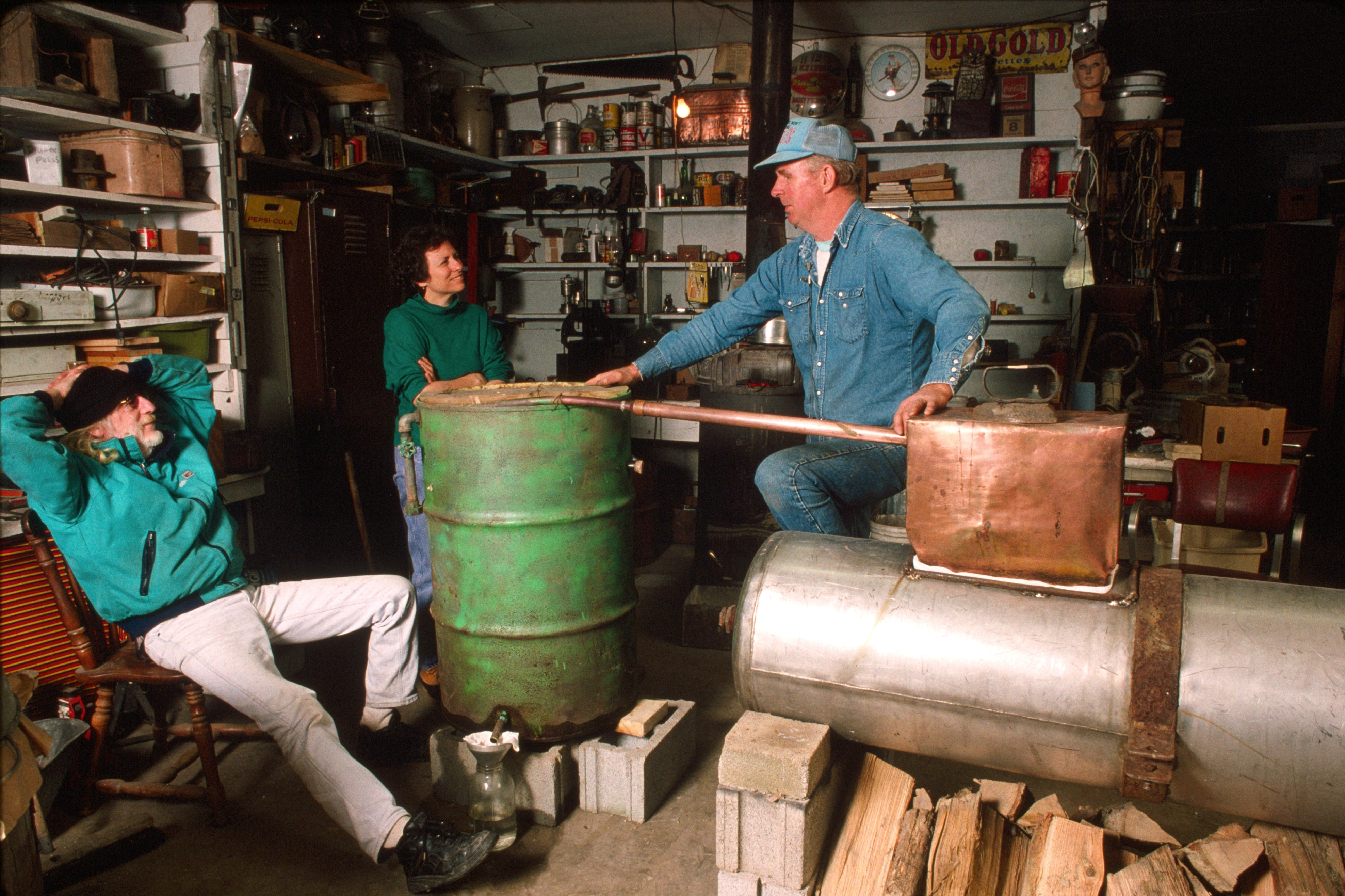 Photograph of John Bowman (right), in his garage, explaining how a moonshine still works to Mary Hufford and John Flynn. [1] Courtesy of the American Folklife Center, Prints and Photographs Division, Library of Congress, Washington, D. C.